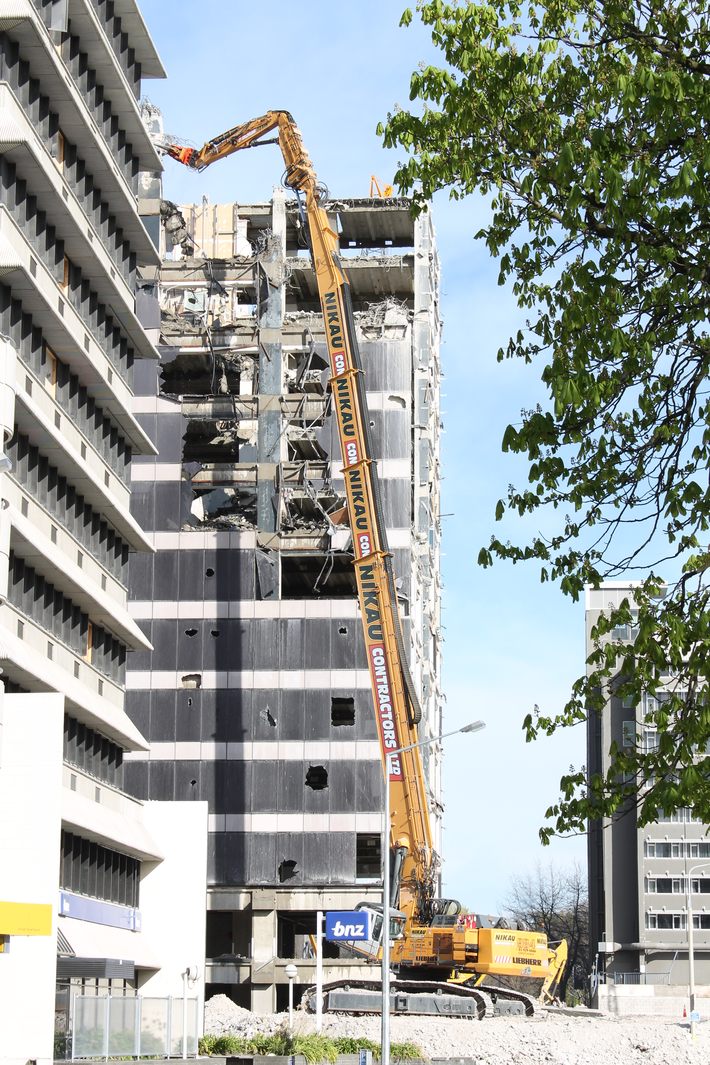 Demolition of the PWC building in Christchurch with Twinkle Toes